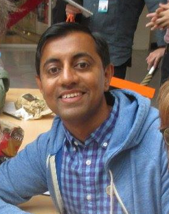 Sanjay Patel at Annecy Festival of Animation